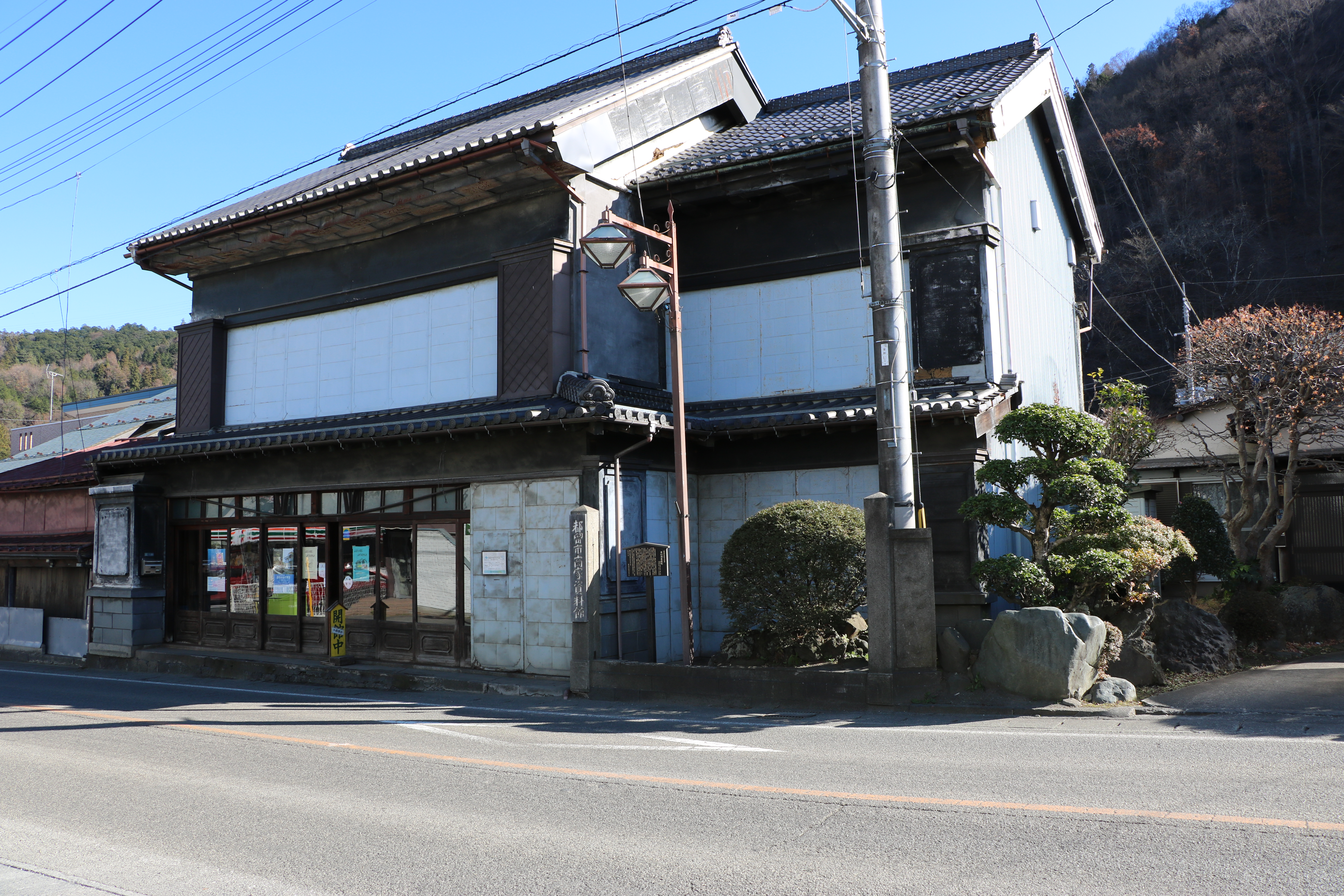 Appearance of Turu City merchant museum